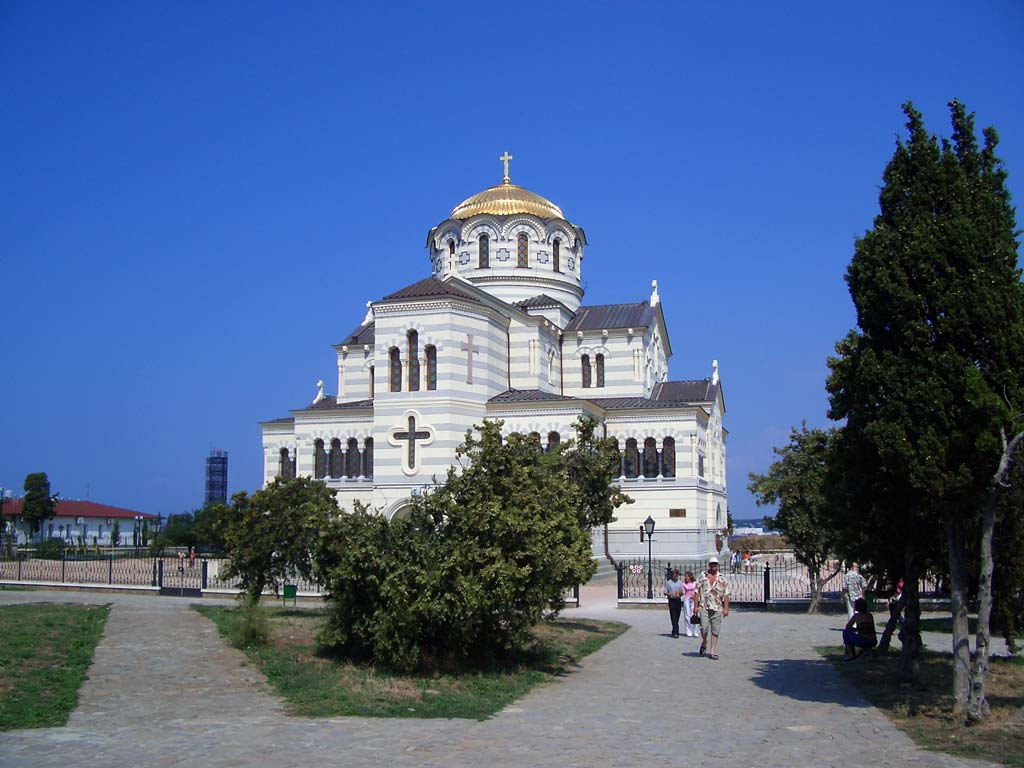 St Vladimir's Cathedral, Chersonesos, Ukraine